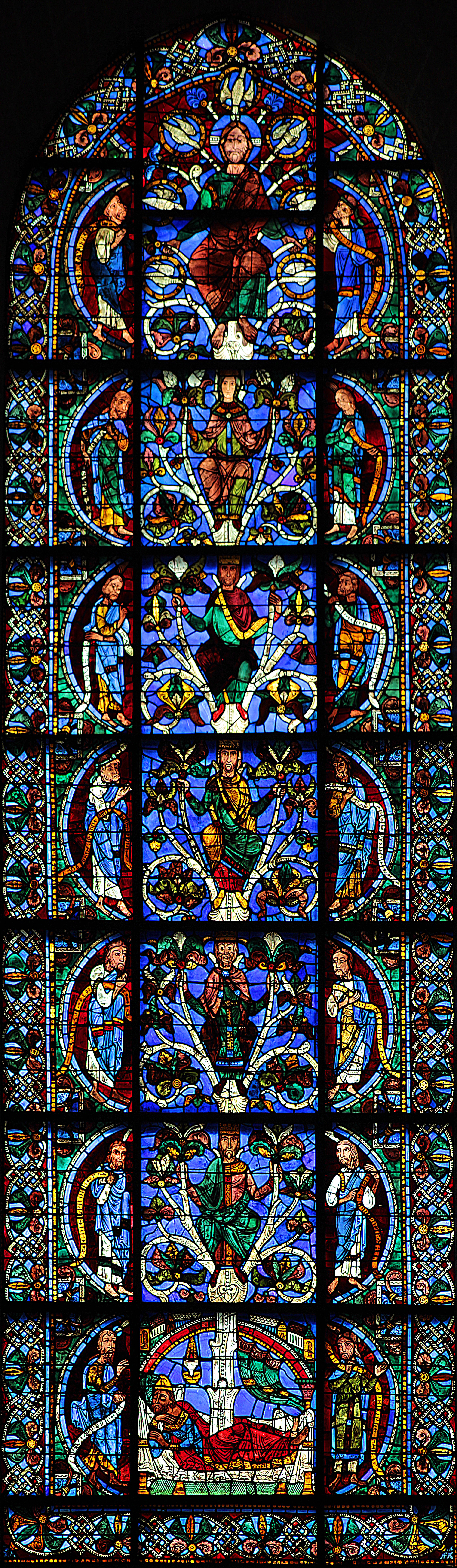 Composite of File:Vitrail Chartres-049 a.jpg and File:Vitrail Chartres-049 b.jpg.